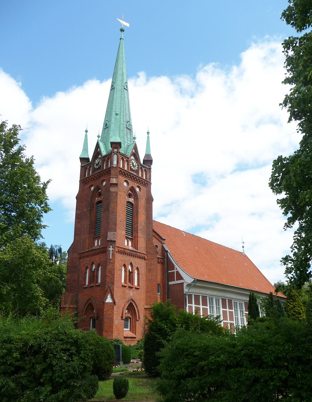 Church St. Nikolai in Hamburg-Moorfleet